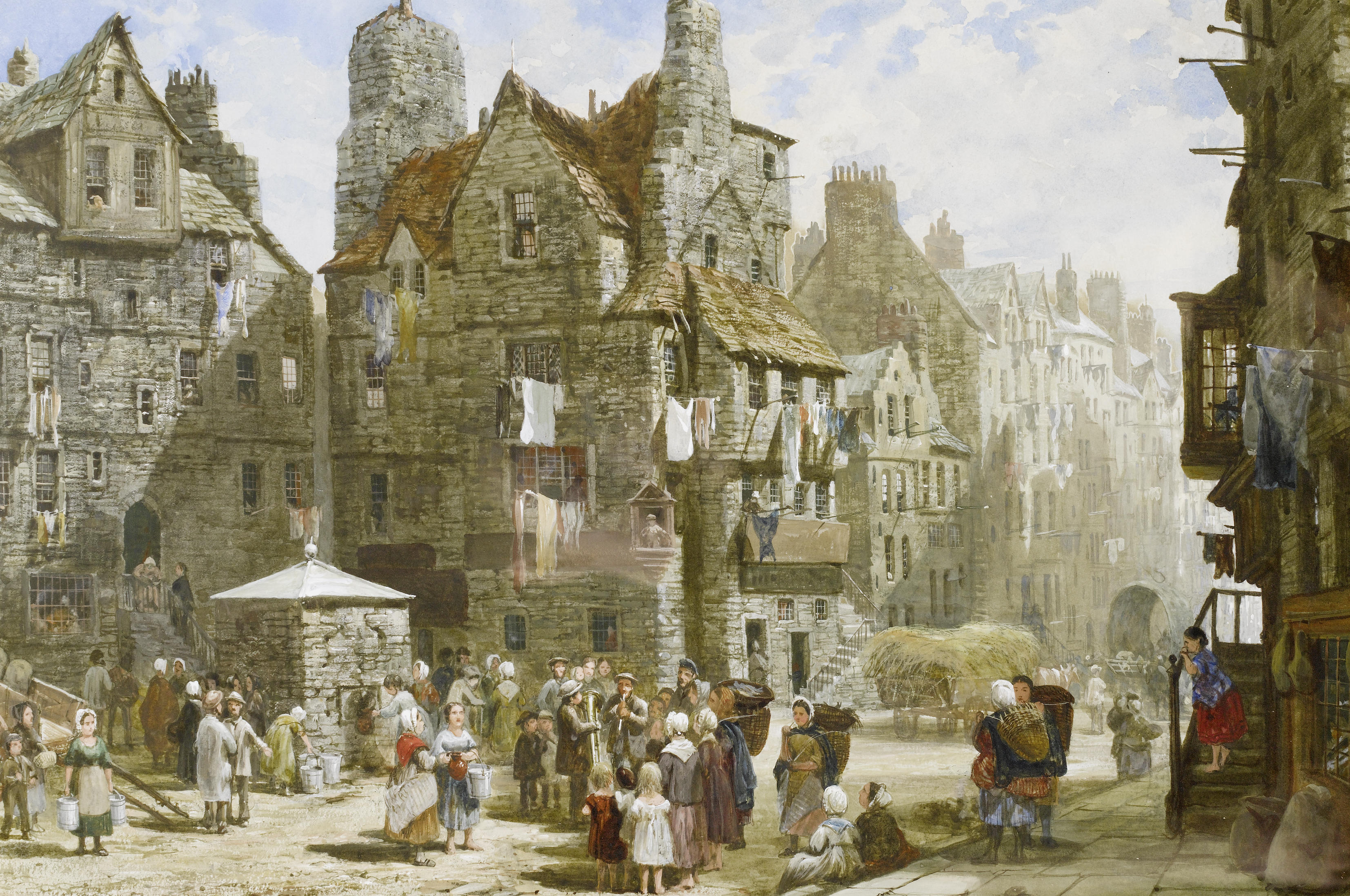 John Knox's House, Edinburgh. Signed Louise Rayner. Watercolour and bodycolour, 32 x 46.5 cm